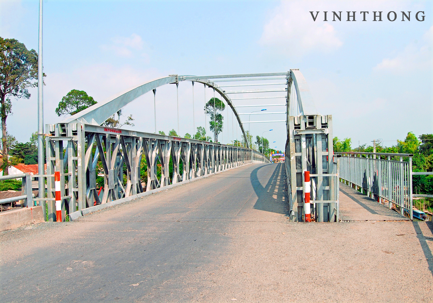 Cầu Bình Thủy, xã Bình Thủy, Châu Phú, An Giang